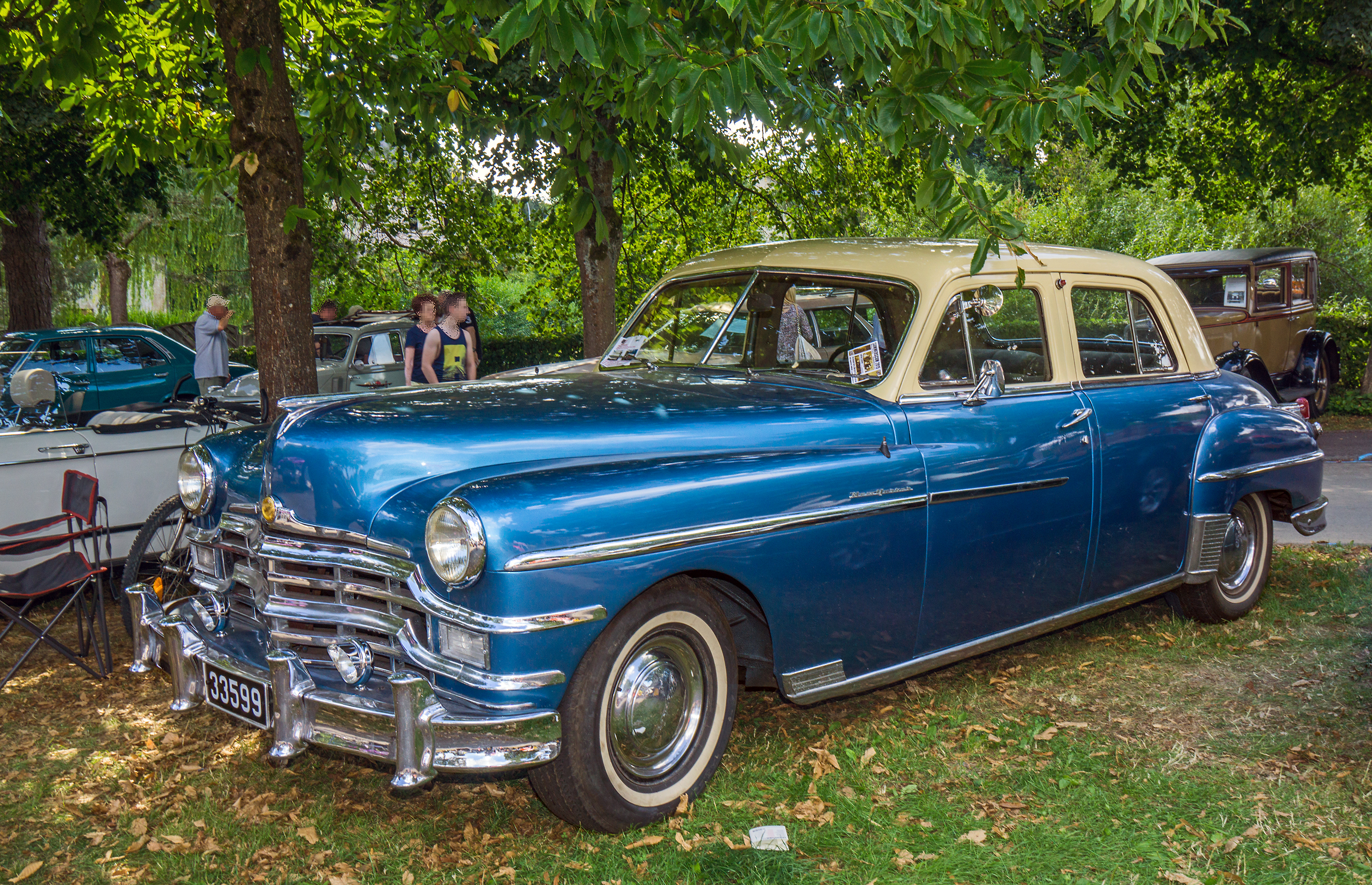 A 1949 Chrysler New Yorker Sedan (C46) in Steinfort, Luxemburg on the Vintage Cars & Bikes 2015